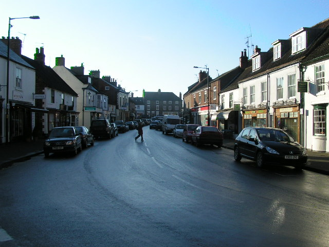 High Street, Boroughbridge